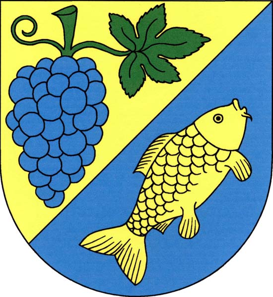 Municipal coat of arms of Kyškovice village, Litoměřice District, Czech Republic.